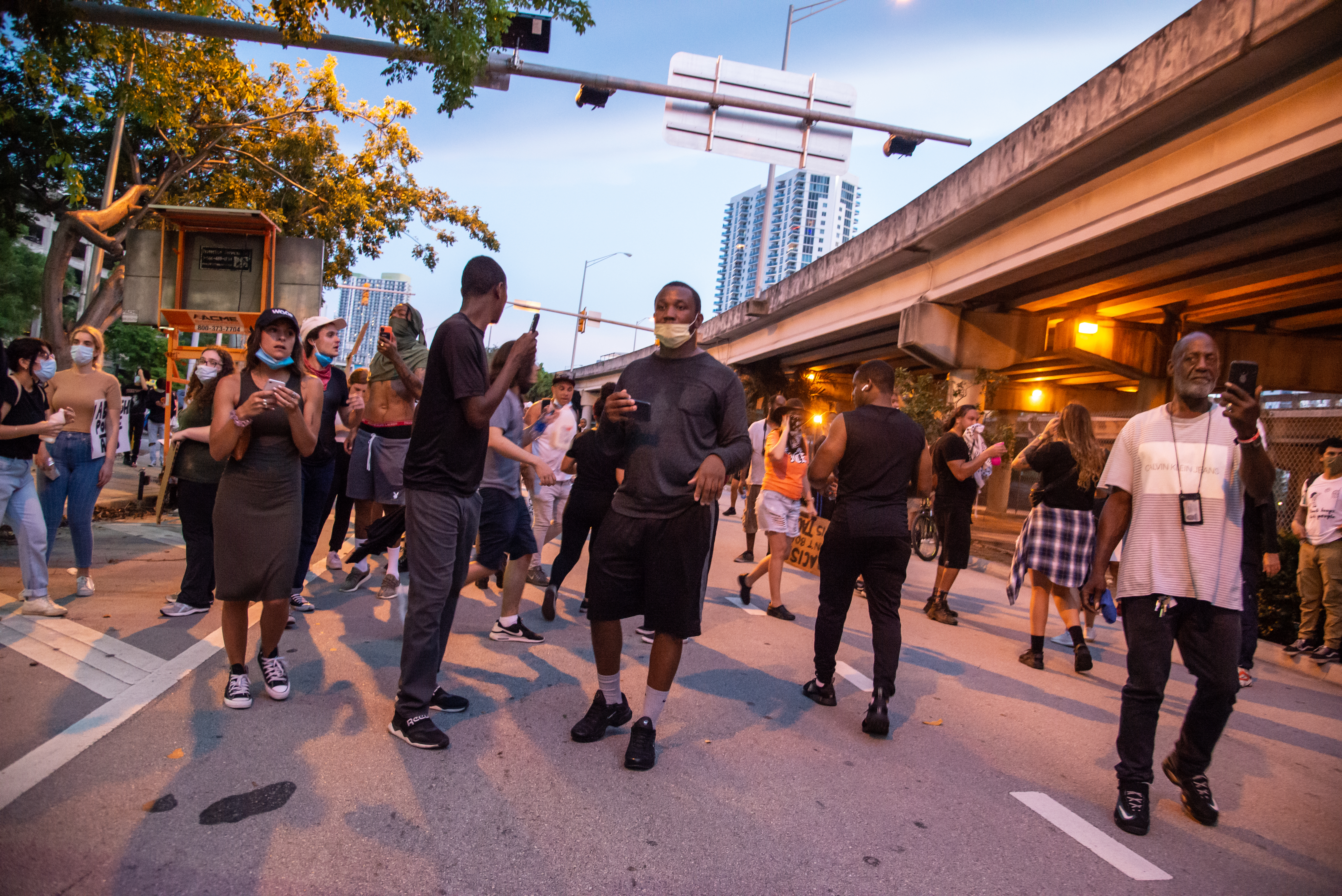 Free commercial use with attribution (Mike Shaheen) Let me know if you use them